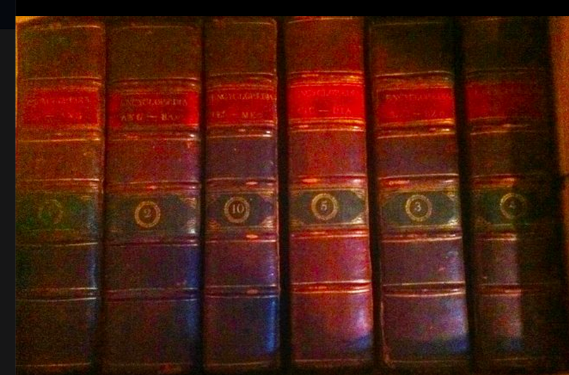 Six full leather bound volumes from a complete 20 volume set of Dobson's Encyclopedia